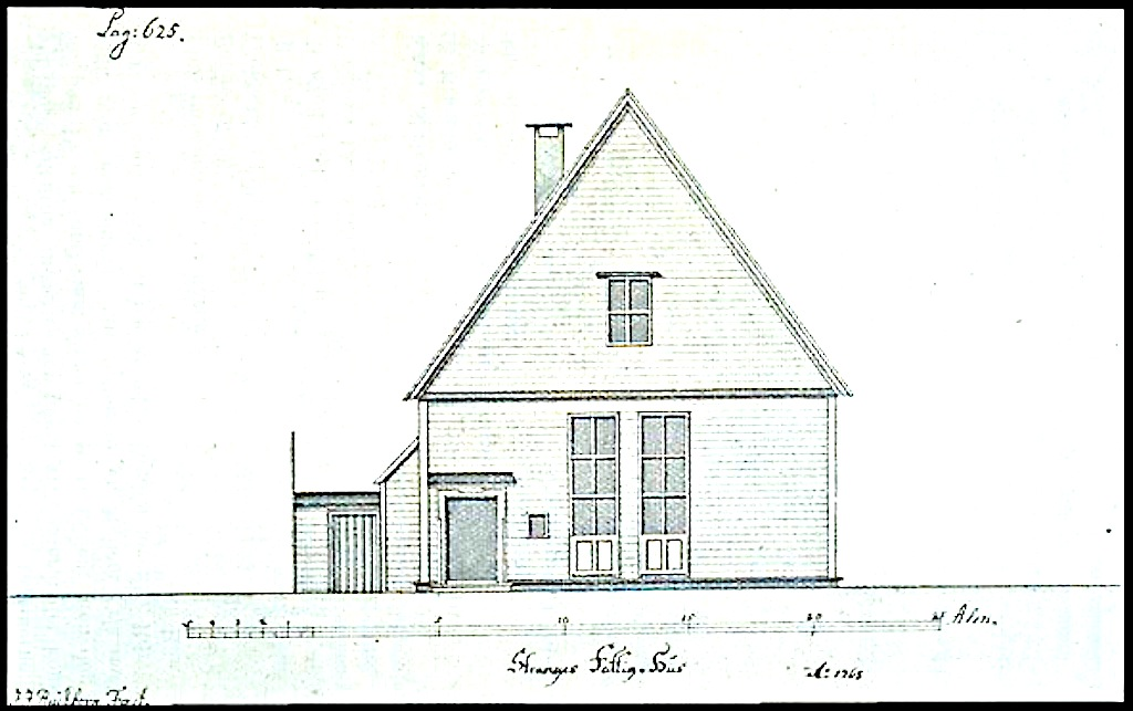 Stranges stiftelse, Bergen (Norway) by Johan Joachim Reichborn, 1768